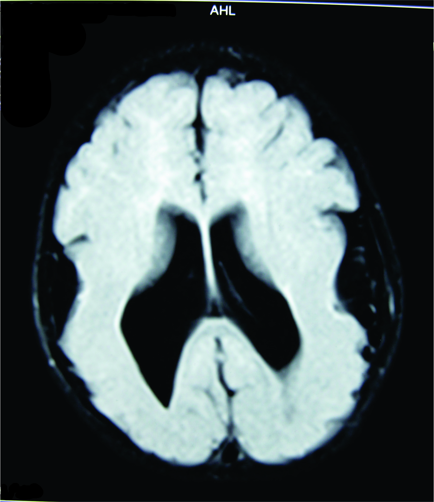 T1 weighted MRI in a transverse plane, of a lissencephalic brain. There are scarce or no circumvolutions in the occipital, parietal and temporal lobes. Also, the gray matter is too thick and the white matter shows ectopic foci of gray matter.